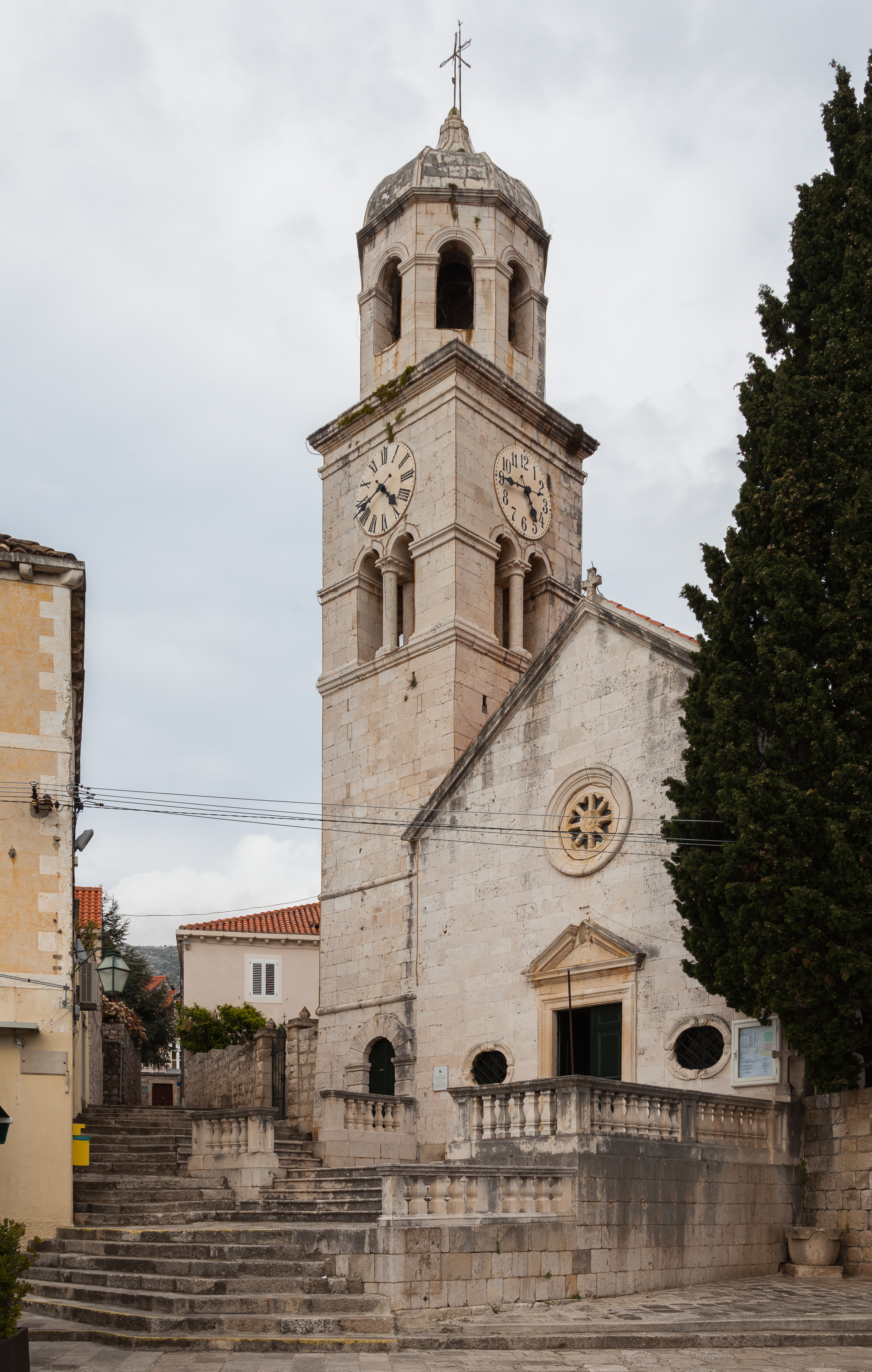 St. Nichalas Church, Cavtat, Croatia